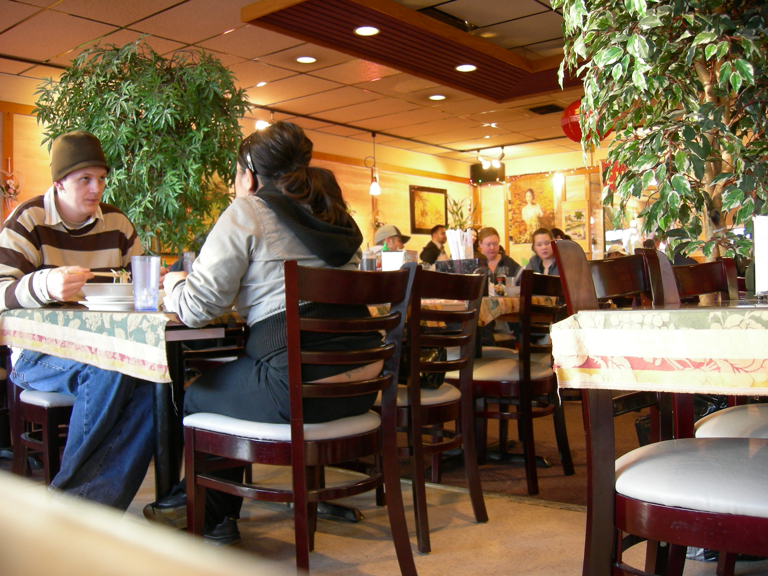 Interior, Thanh Vi Vietnamese Restaurant, Asian Plaza shopping center, Little Saigon (12th & Jackson), International District, Seattle, Washington.